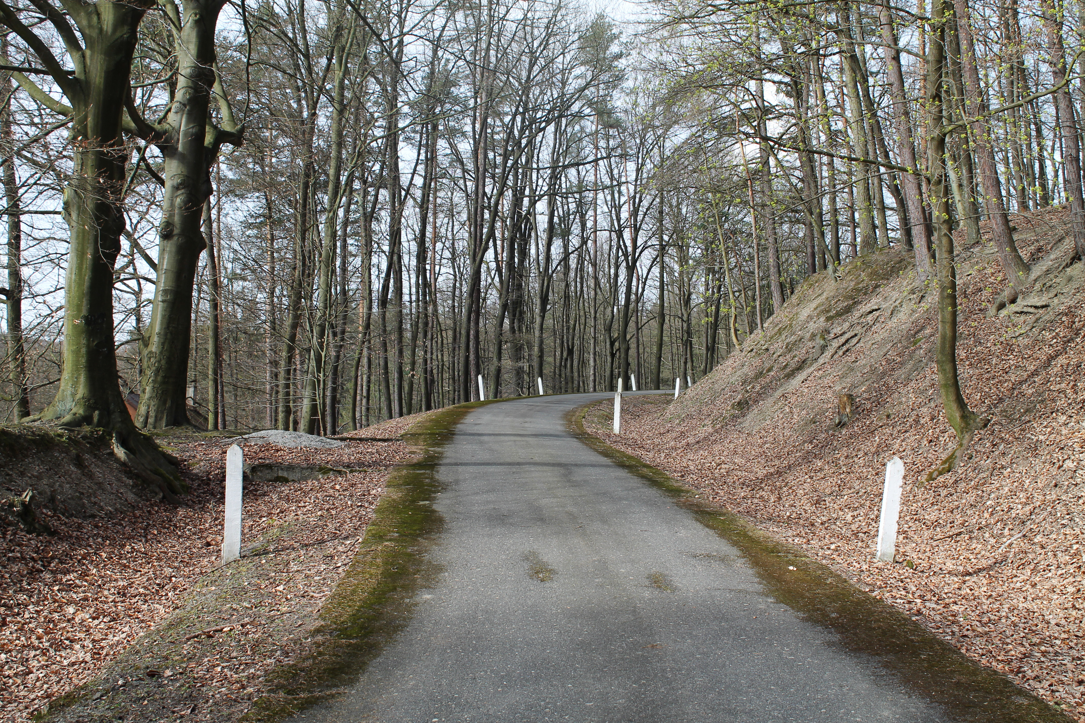 Access road to MO-Sm-S 41 Nad Valchou entry casemate, Smolkov, Háj ve Slezsku, Opava District